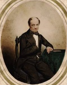 Karl Thomas Mozart